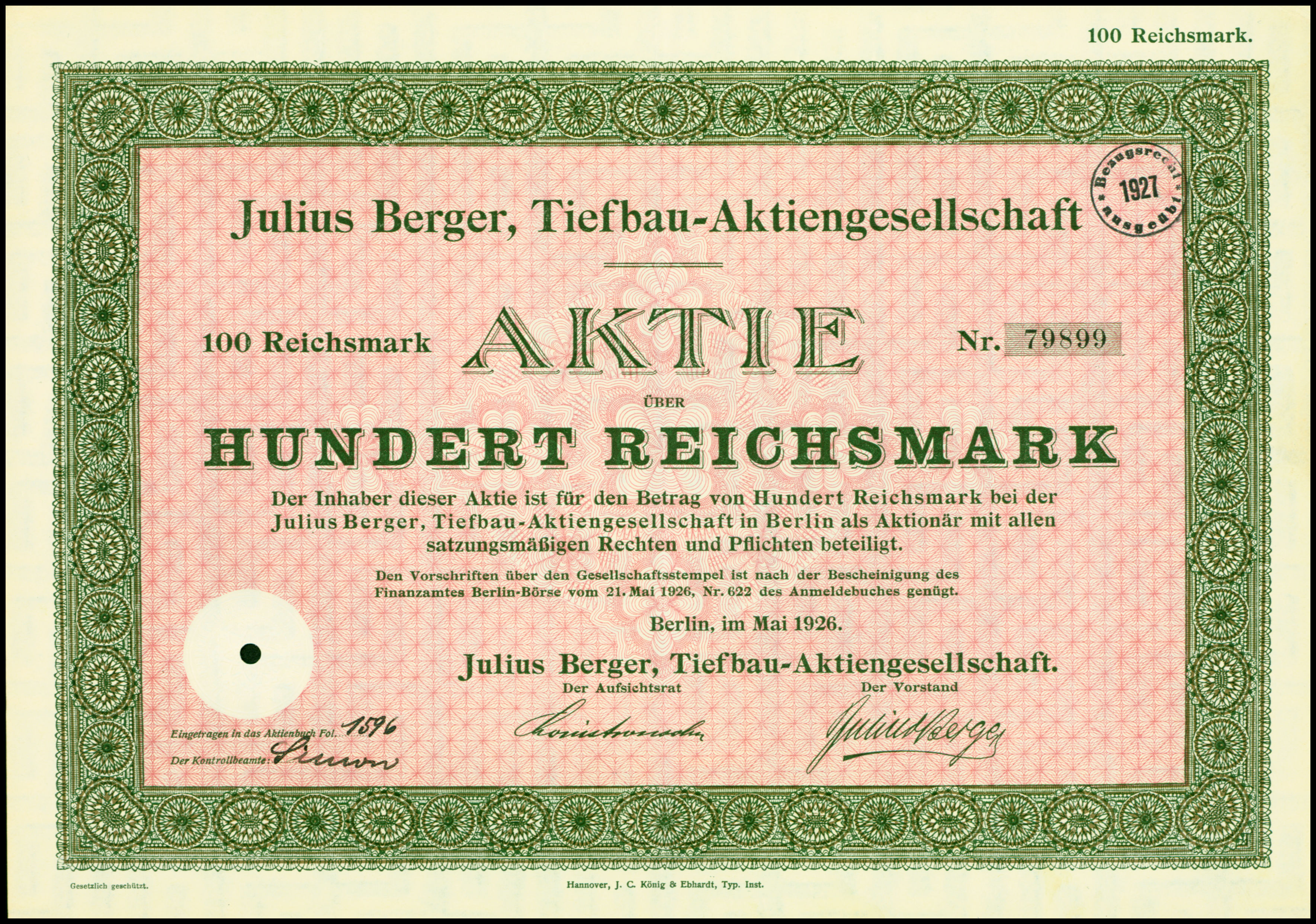 Share of the Julius Berger Tiefbau-AG, issued May 1926